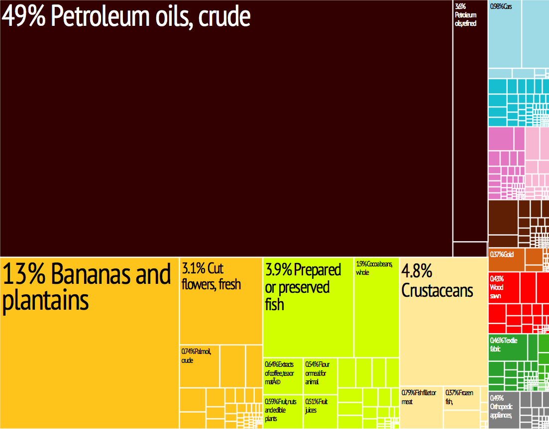 Ecuador Export Treemap from MIT Harvard Economic Complexity Observatory